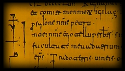 The Cartularios of Valpuesta, the first texts containing words in a primitive Romance language (Old Castilian).